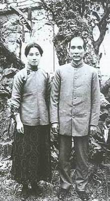 Sun Yat-sen and Soong Ching-ling in Generalissimo Mansion